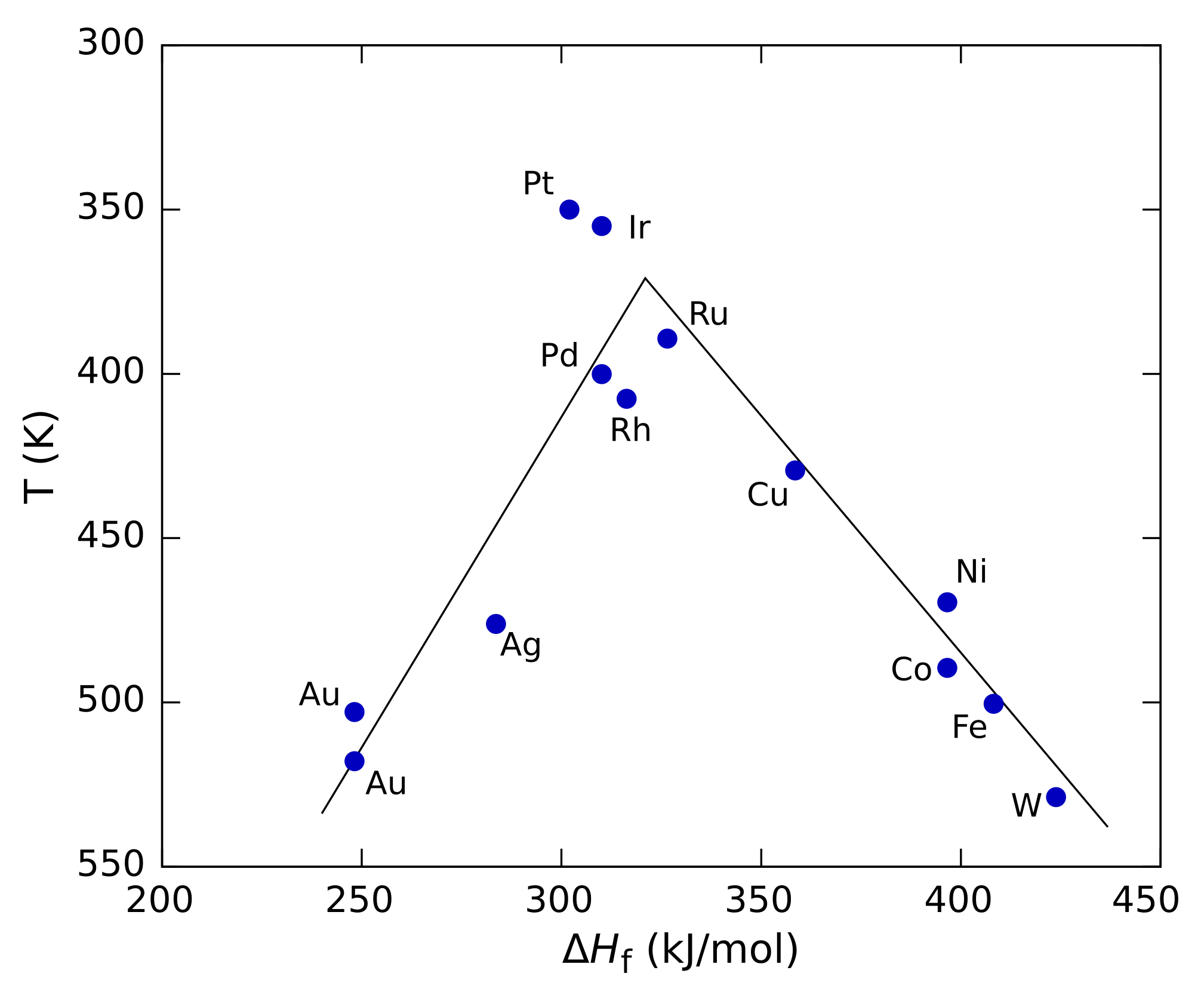 A volcano plot, drawn based on data extracted from Helmut Knözinger; Karl Kochloefl (2005). "Heterogeneous Catalysis and Solid Catalysts", Ullmann's Encyclopedia of Industrial Chemistry. Wiley-VCH Verlag.